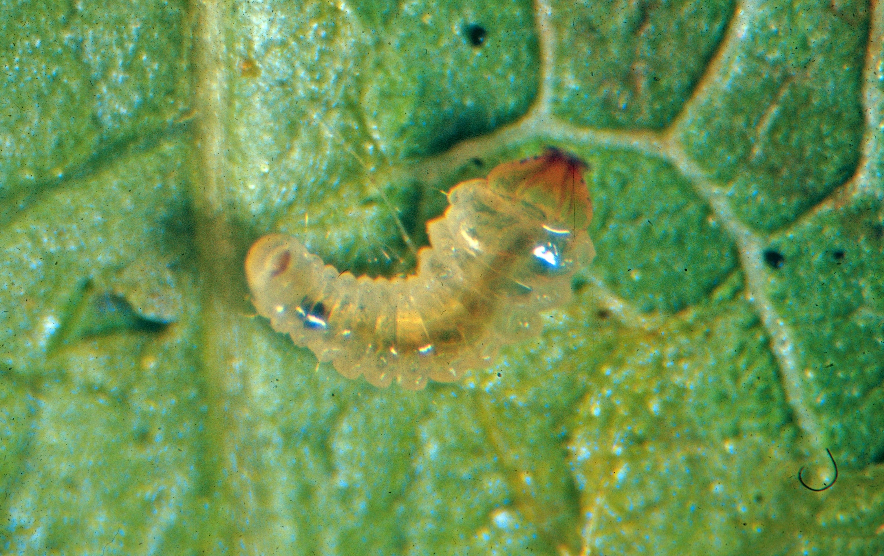 Phyllocnistis populiella larva on Fremont cottonwood (Populus fremontii) in Zion National Park, Utah, United States